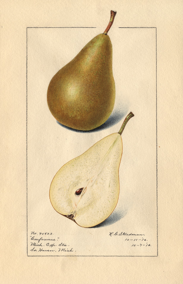 Watercolor of Pyrus communis 'Conference' fruit. Fruit came from „Michican Exp. Station, South Haven, Michigan, October 7, 1916“